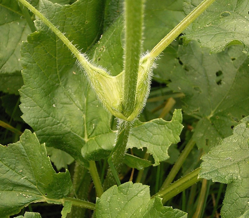 Heracleum sphondylium